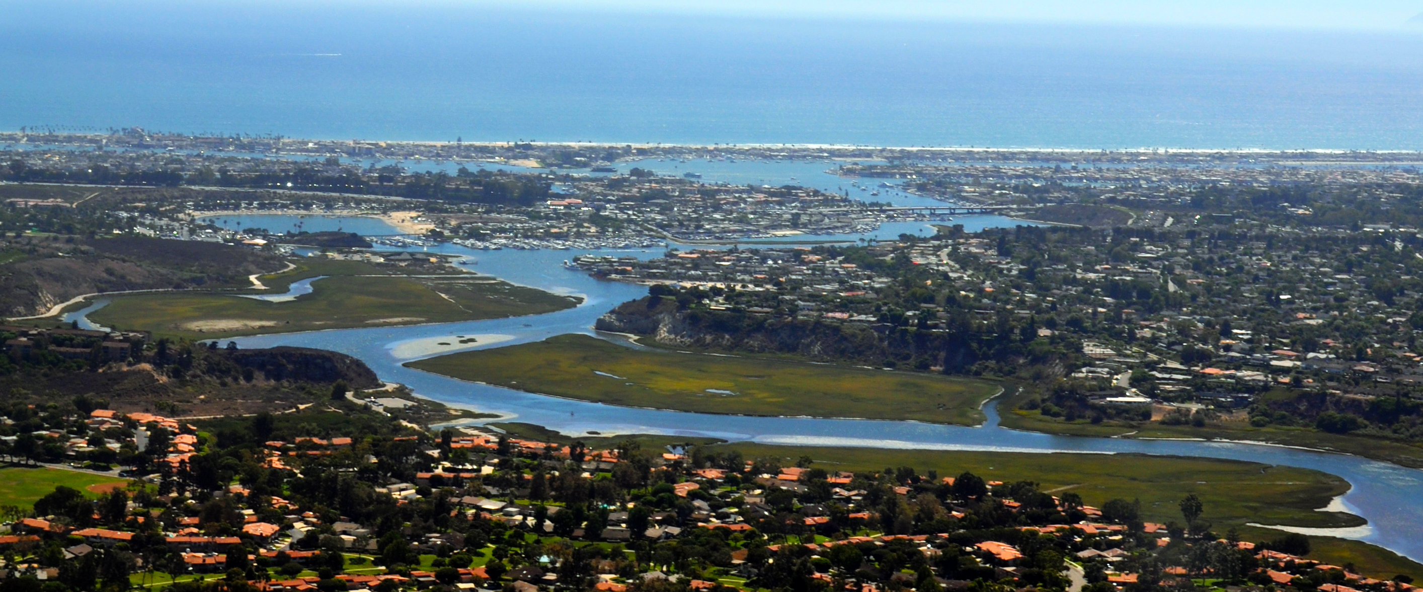 Upper Newport Bay Photo D Ramey Logan must publish photographer credit if used outside of Wikipedia projects.